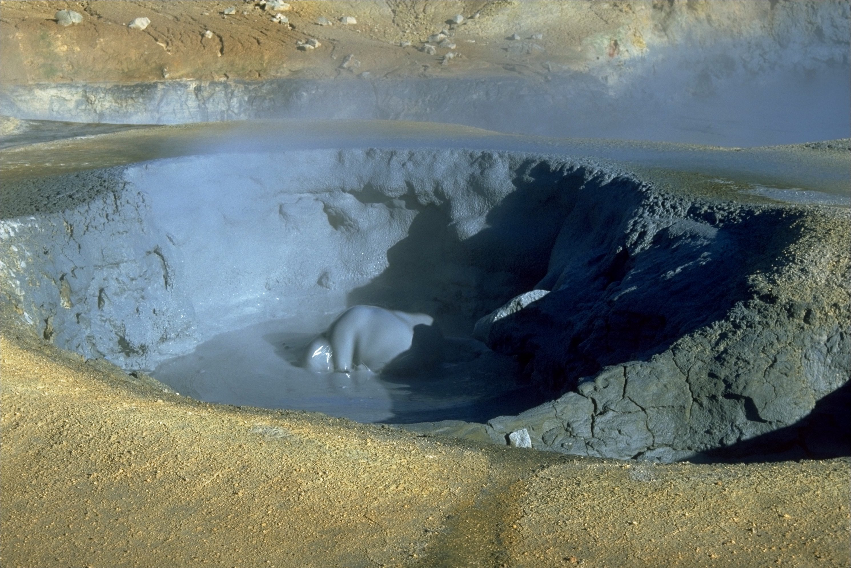 Hot spring at Námaskarð, Iceland Photo was taken using the following technique: Film: Fuji Velvia Lens: 2.8/28 Filter: Polarisation Body: Minolta Dynax 7 Support: Manfrotto 190B Image with Information in English Bild mit Informationen auf Deutsch